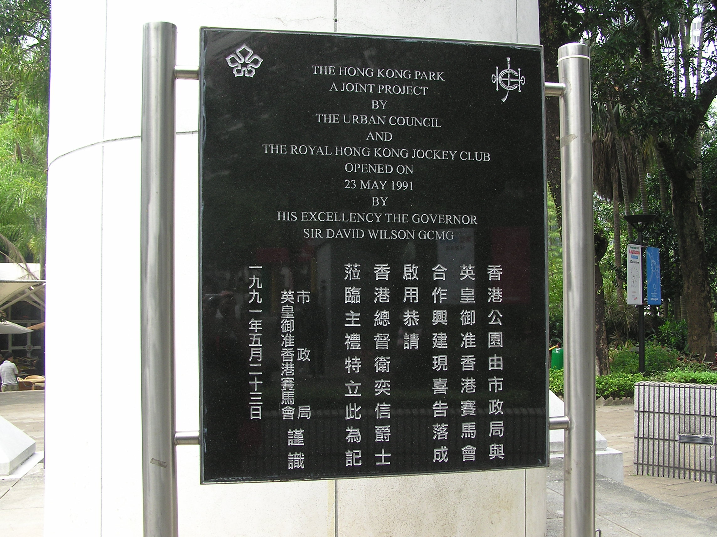 The plaque commemorating the opening of the Hong Kong Park